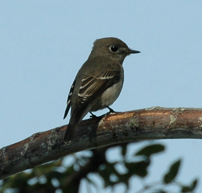 Asian Brown Flycatcher (Muscicapa dauurica) Mai Po, Hong Kong